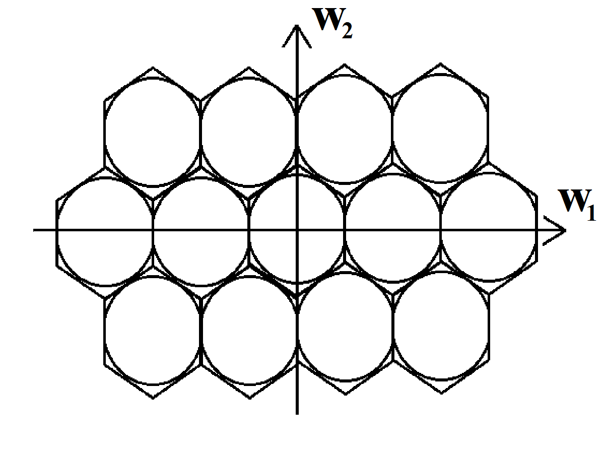 Sampling on a hexagonal grid.